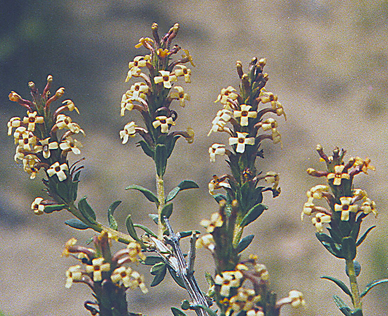 A four-petal shrub from the dry lands of Patagonian Argentina. In context at